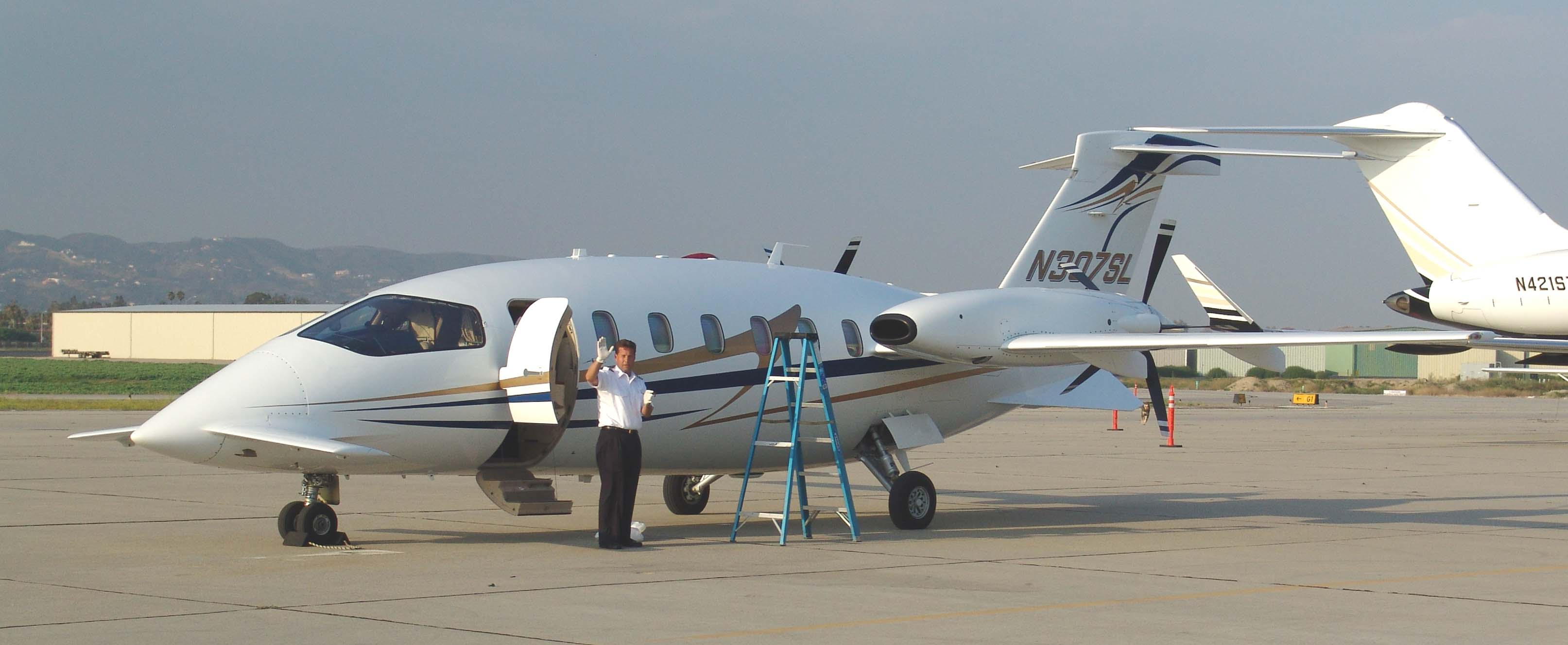 Piaggio P180 Avanti twin turboprop pusher aircraft on the tarmac at Camarillo airport (KCMA), Camarillo, California